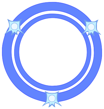 Representation for the Magic Seal system, from the Konami's game Castlevania: Dawn of Sorrow.